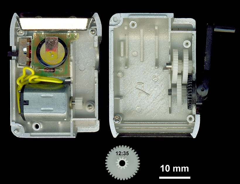 Small crank driven, human muscle powered dynamo flashlight - case opened to show the parts. A switch connects the 2 LED lamps (top left) to a battery (center left) which is charged by the electric generator (lower left) with the help of the small diode. Turning the black fold-away crank at 60 rpm (=1/sec) drives the 72:1 step-up gear and lets the generator rotate at 4320 rpm. A few minutes of cranking probably provides 10-15 minutes of light.